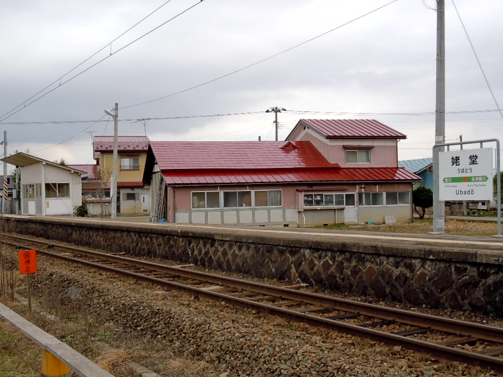 Ubado Station on West Ban7etsu Line